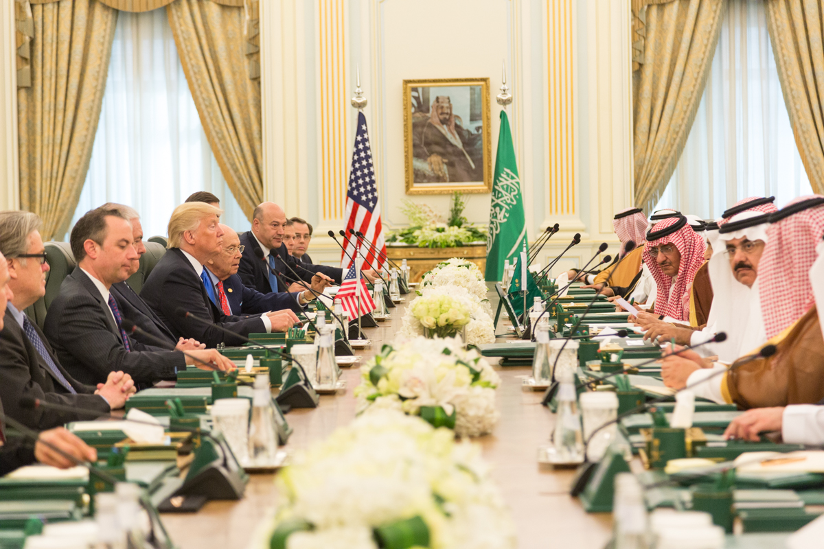 President Donald Trump and members of the U.S. delegation participate, Saturday, May 20, 2017, in a bilateral meeting with King Salman bin Abdulaziz Al Saud and Saudi Arabia officials at the Royal Court Palace in Riyadh, Saudi Arabia. (Official White House photo by Shealah Craighead)